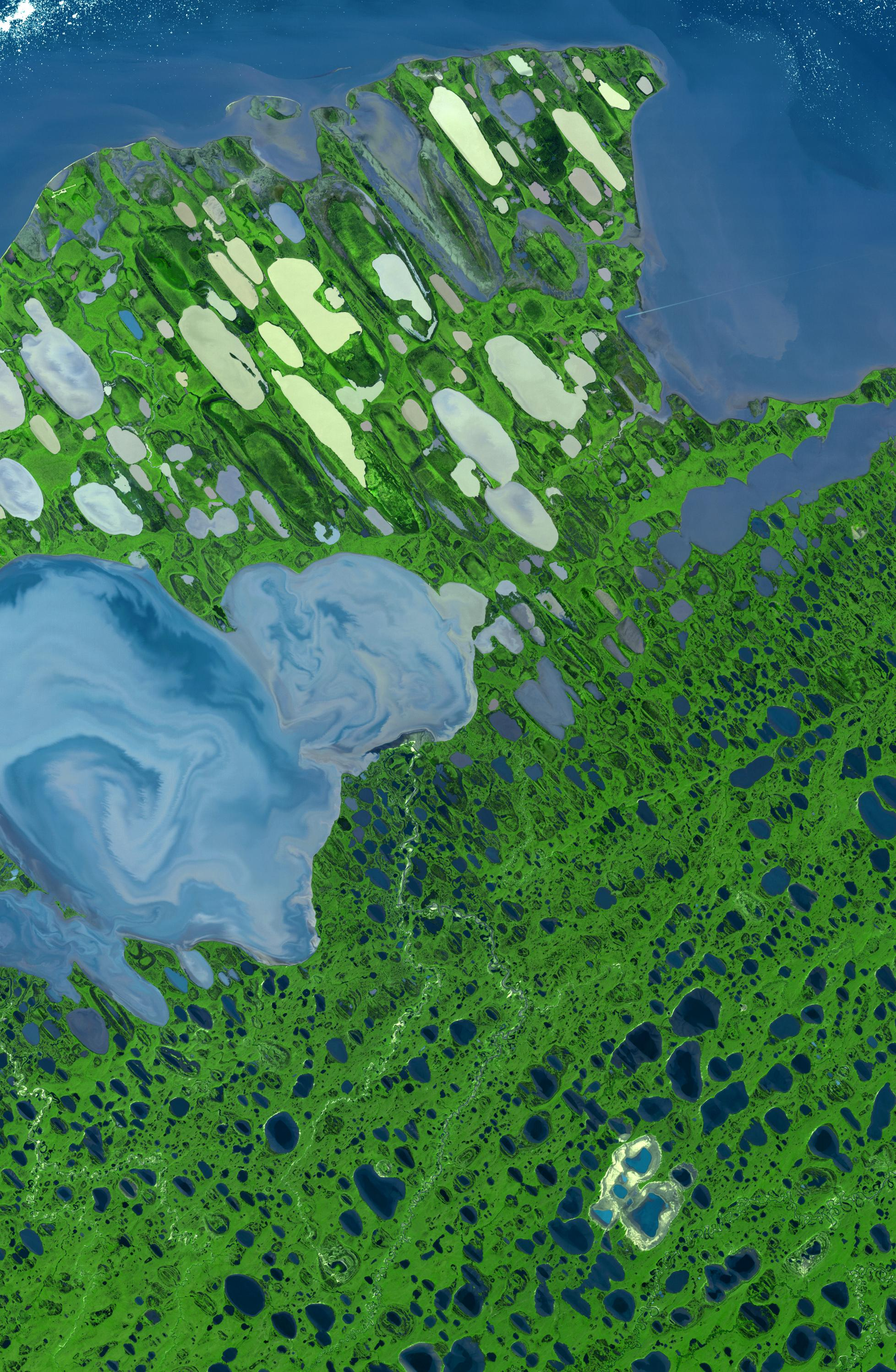 False-color image of Teshekpuk Lake (left side of image) and the Alaska North Slope. Green indicates vegetation and blue indicates water. Some bodies of water also appear in off-white or yellowish, probably due to different amounts of sediment in the water and/or the sun angle. The Beaufort Sea is at the top of the scene. The image covers an area of 58.7 by 89.9 kilometers, and is centered near 70.4 degrees North latitude, 153 degrees West longitude.